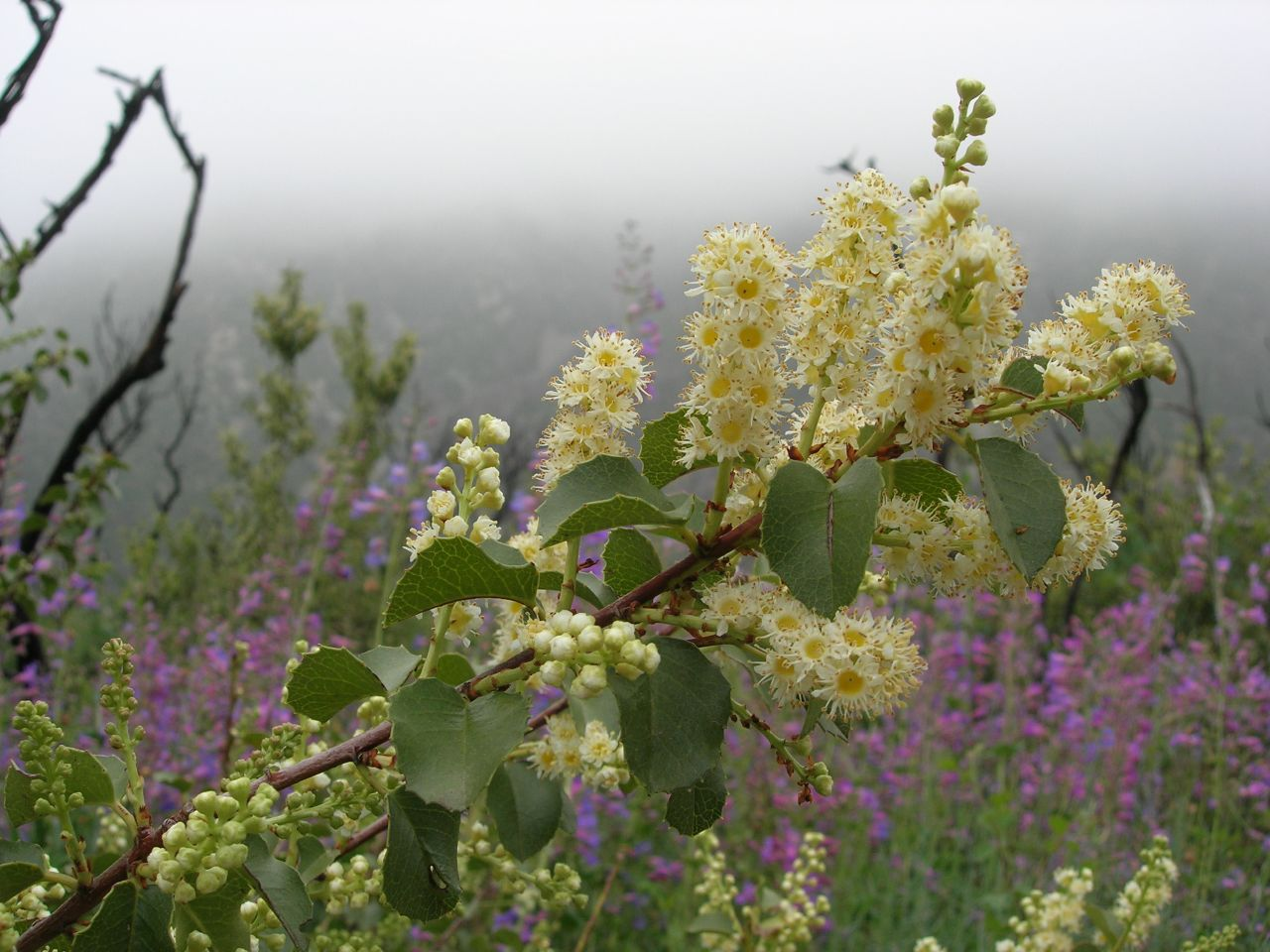 Prunus ilicifolia flowers, Middle Fork of Lytle Creek, San Bernadino National Forest, California, 34°15'09"N 117°33'08"W, 1350m altitude